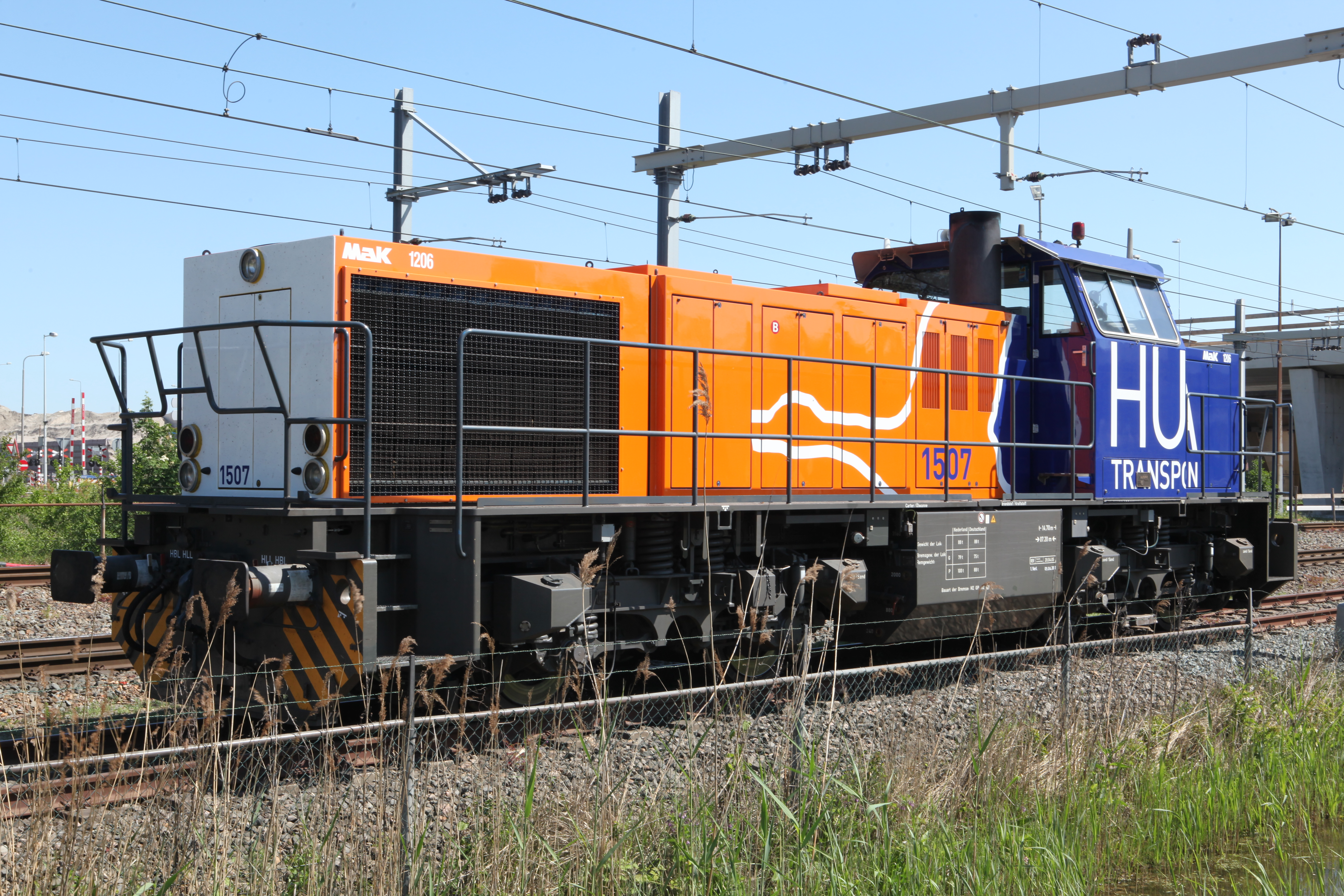 HTRS HUSA Transportation Railway Services Nederland B.V.